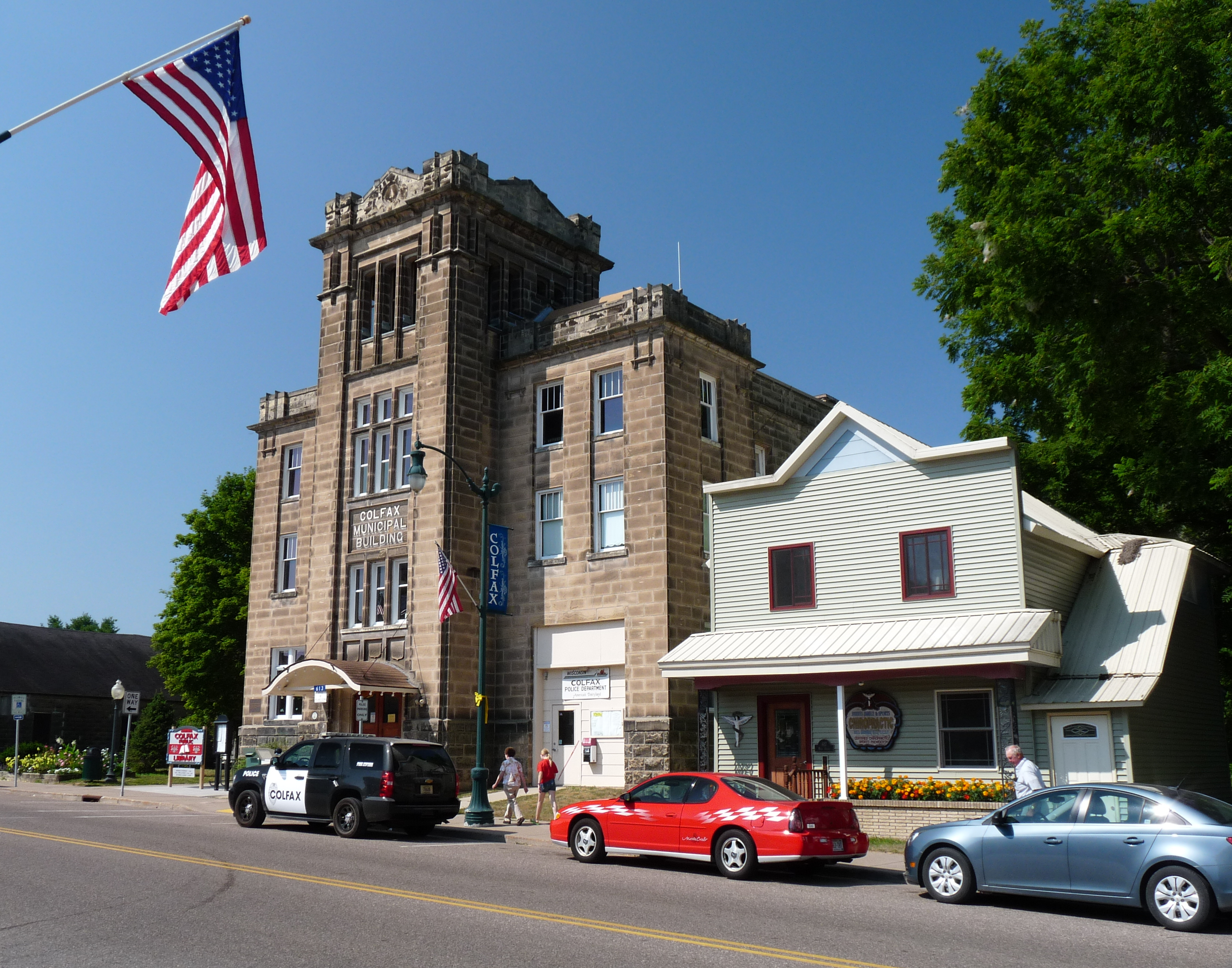 The Colfax Municipal Building (larger building on left) in Colfax, Wisconsin was built in 1915, and housed the city's police station, fire station, meeting rooms, auditorium, banquet hall, and library. Since 2004 it has been listed on the National Register of Historic Places.